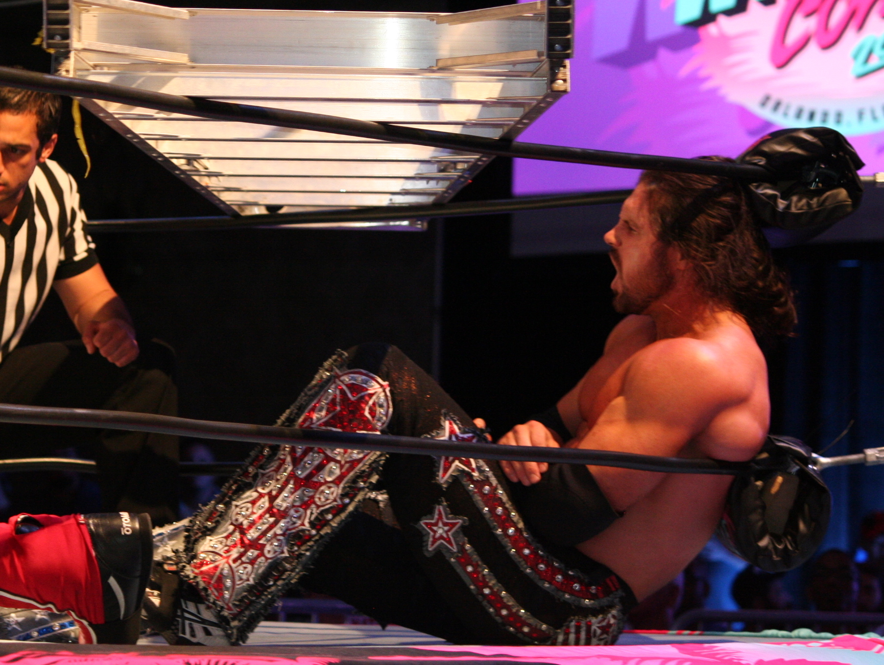 John Morrison in April 2016 in a match against Brian Cage